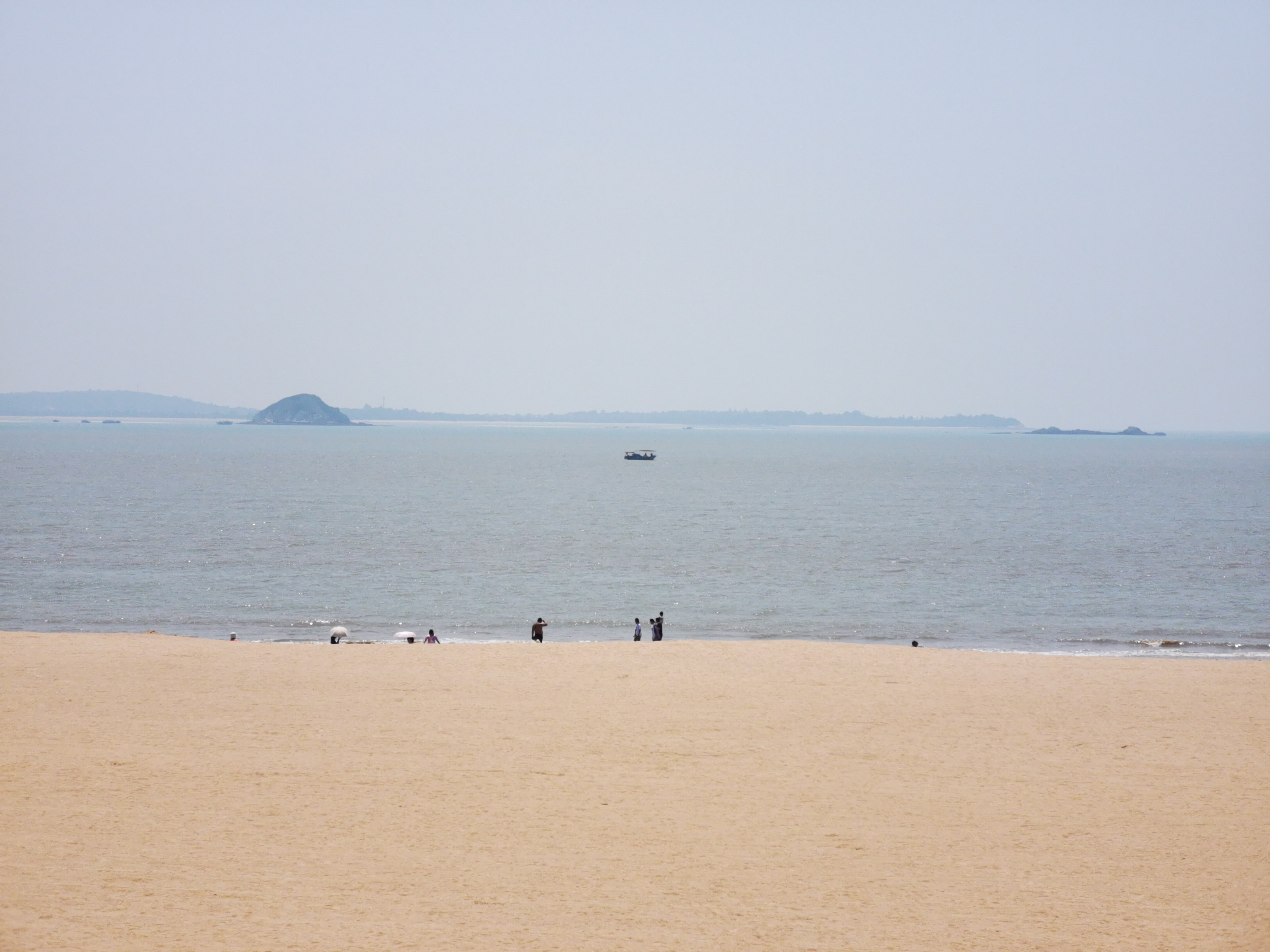 Xiamen (Amoy) One country, two systems beach and Kinmen (Quemoy) County